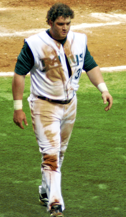 Photo by Googie Man 16:22, 29 April 2006 . . Googie man . . 406×700 (331,726 bytes)